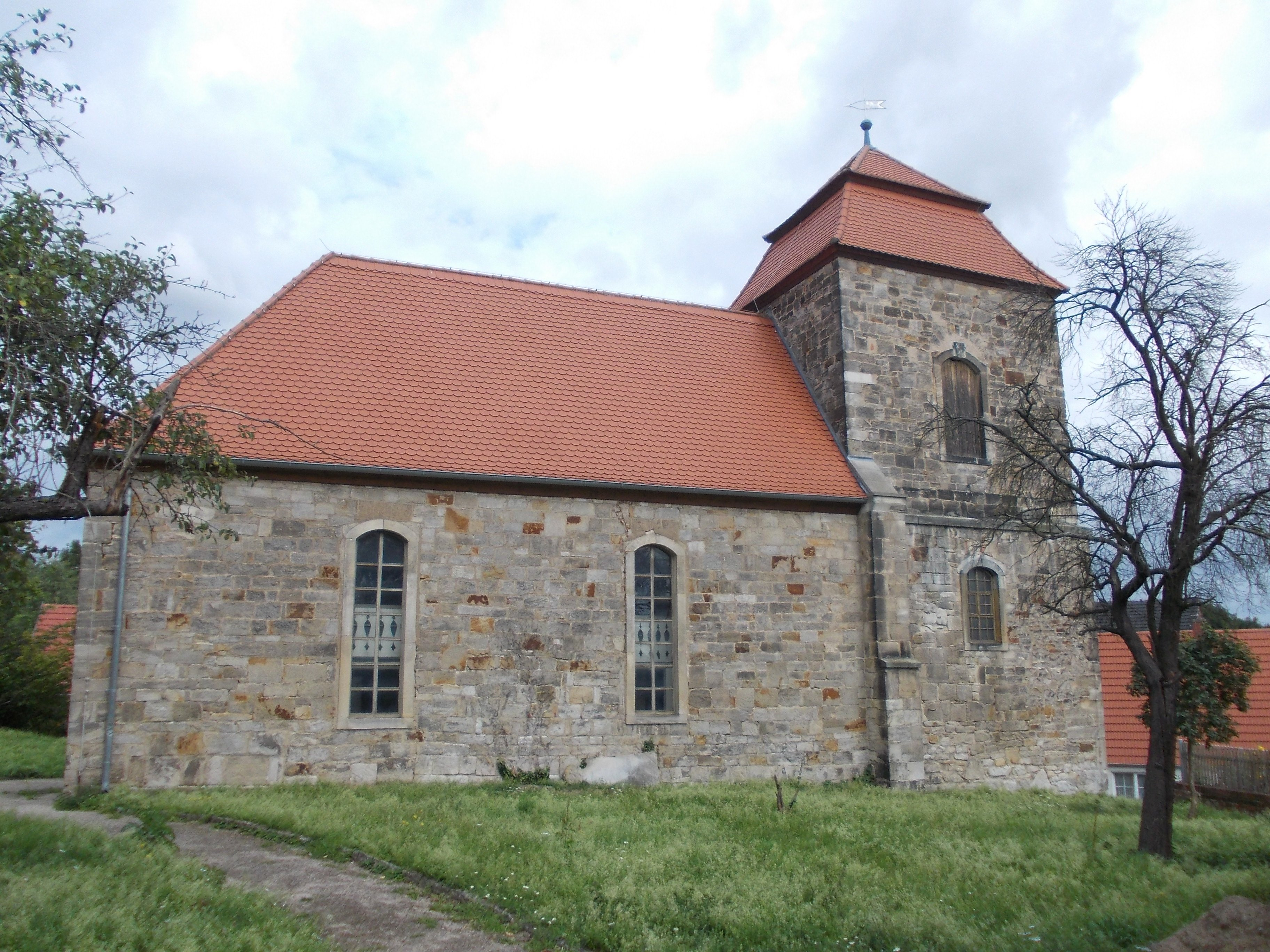 The church in Kösslitz-Wiedebach (Weissenfels, district: Burgenlandkreis, Saxony-Anhalt)